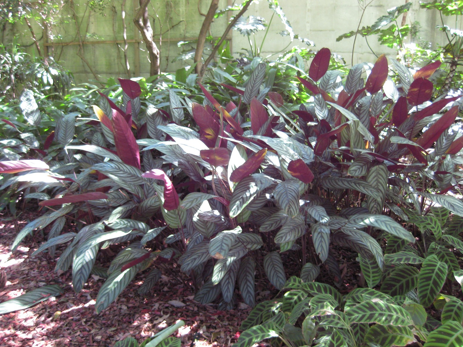 Photographed at the Royal Botanic Gardens Sydney (Australia) in December